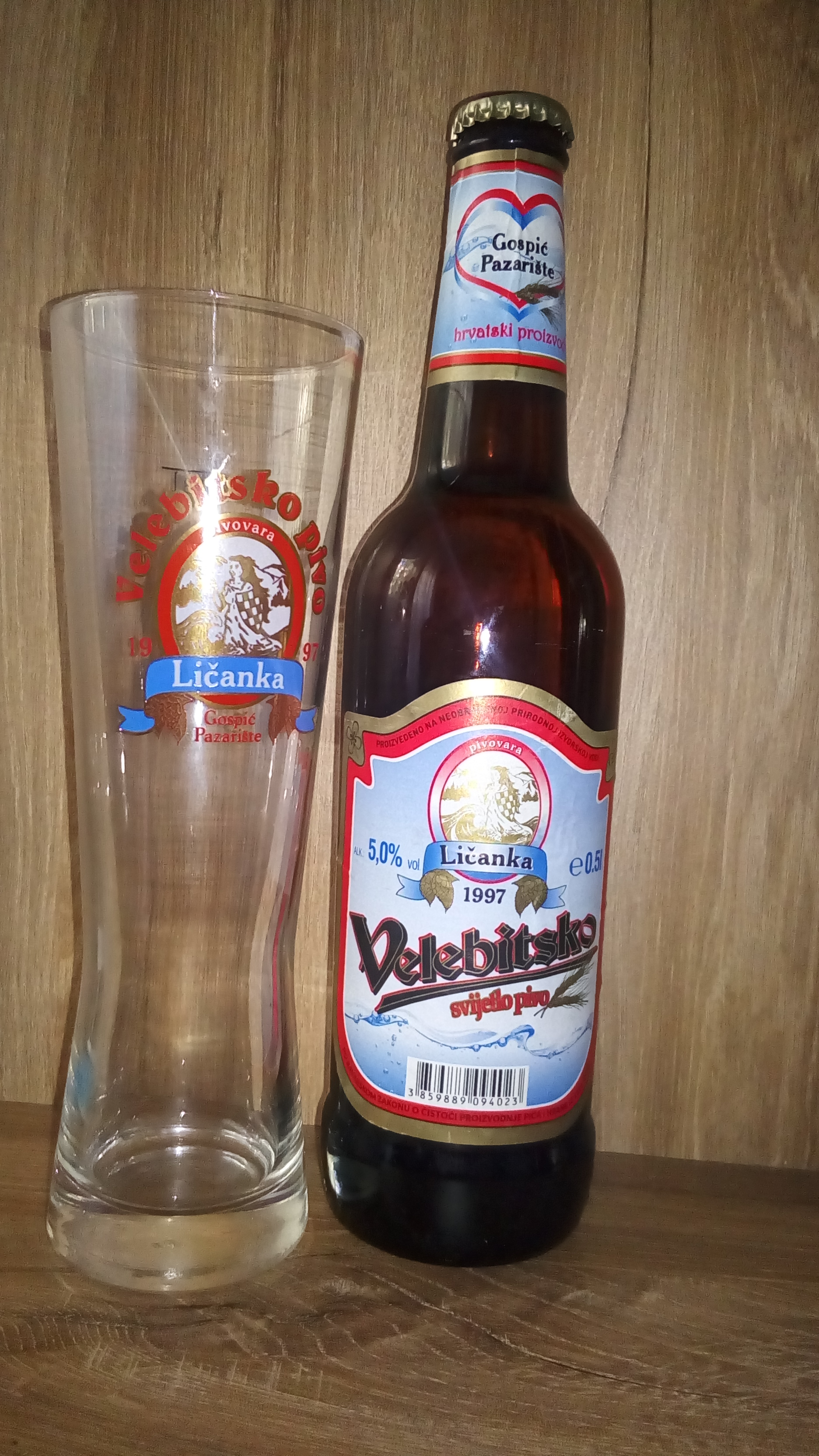 Velebitsko svijetlo pivo